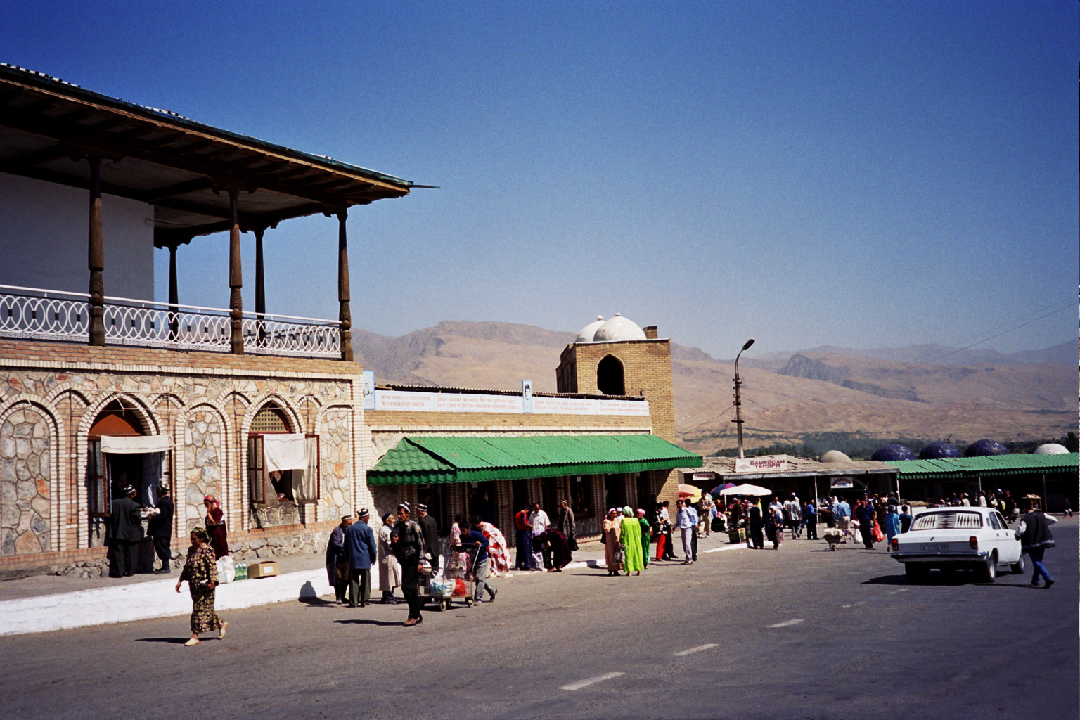 back in downtown pendzhikent we went to the covered market, pictured here with the mountains in the background (i'm not sure if they are the zaravshan or turkiston range)